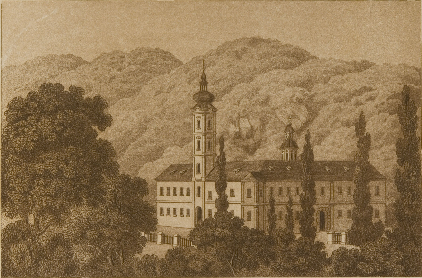 Engraving of Bešenovo monastery, Serbia, 1861. Српски (ћирилица): Гравура манастира Бешеново, 1861